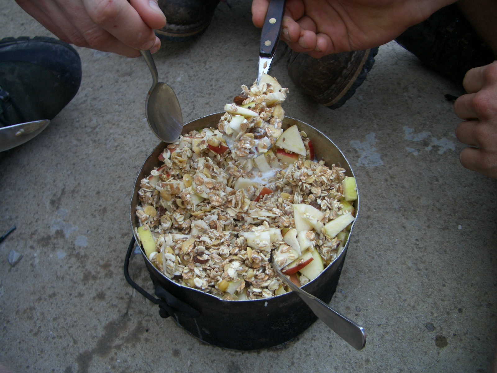 Cereals in a pot